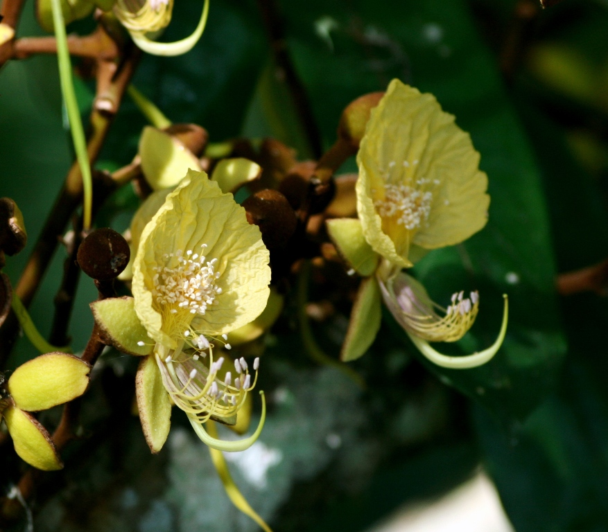 Flowers of Swartzia sp. (possibly S. picta), Rio Caura, Venezuela